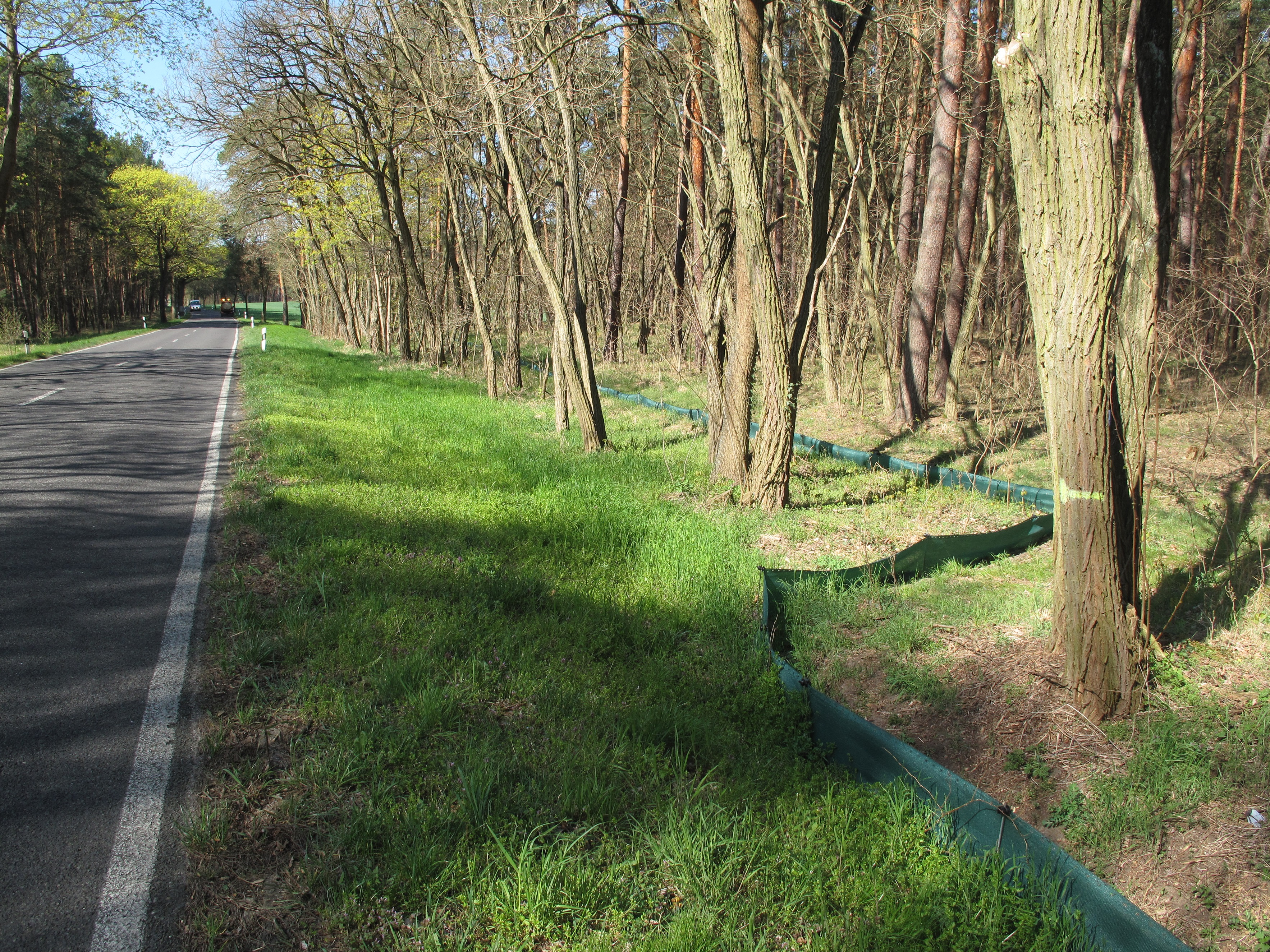 Amphibian protective fence at the Landesstraße 42 in the north of the Reichardtsluch. The Reichardtsluch (other spellings: Reichardsluch, Reichards-Luch) is a Luch in Limsdorf, a part (german: Ortsteil) of the town Storkow in the District Oder-Spree, Brandenburg, Germany. It is situated in the Dahme-Heideseen Nature Park. The Luch is a part of the Natura 2000-area Schwenower Forst Ergänzung (Schwenower Forst supplement), which belongs to the Natura 2000-area und protected area Naturschutzgebiet Schwenower Forst. It is protected for its amphibian conservation. The Reichardtsluch is flown by the Schwenowseegraben.